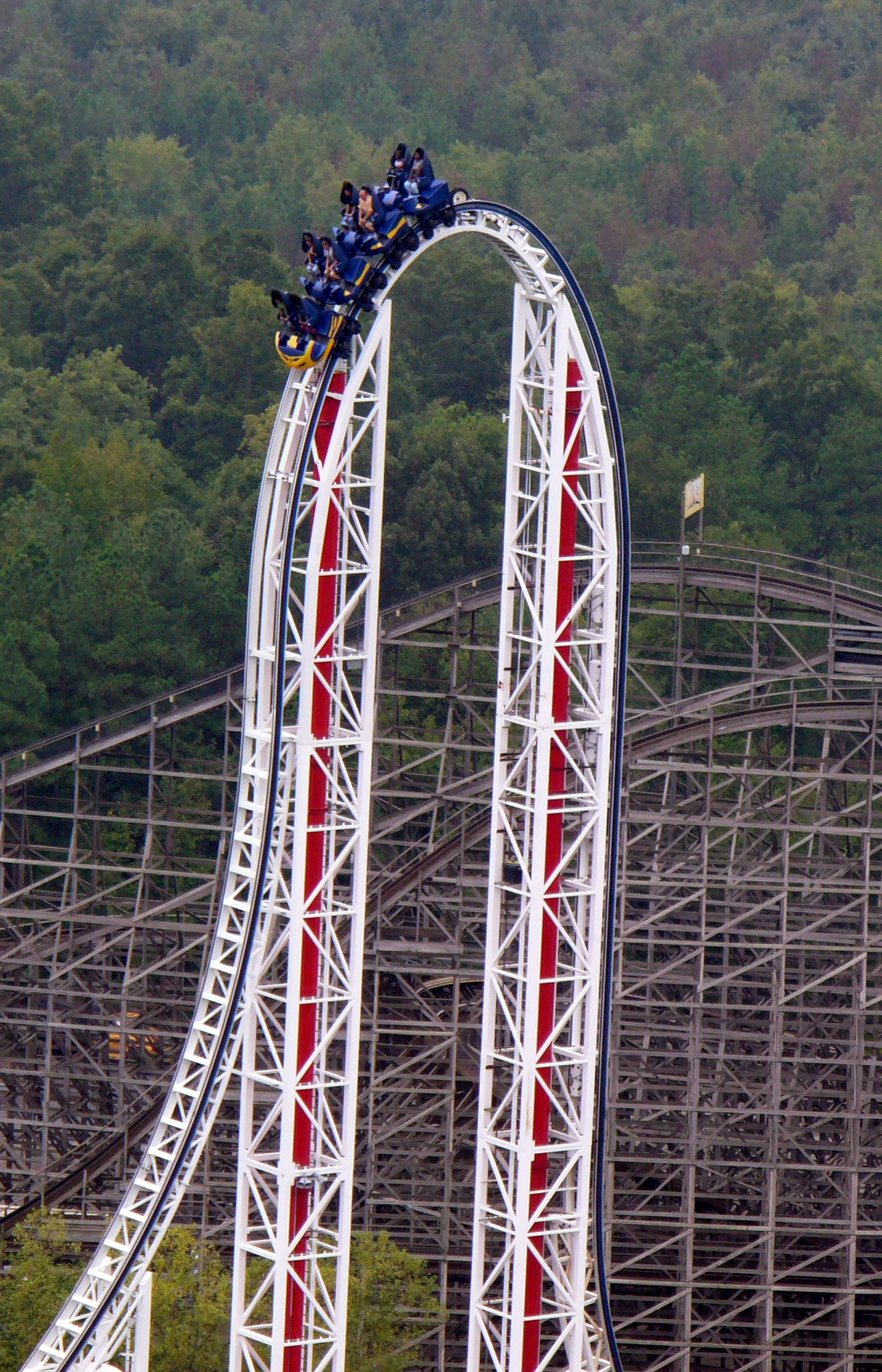 Riders on the Hypersonic XLC coaster prepare to drop at a 90 degree angle. Taken from the observation tower at Paramount's Kings Dominion in Hanover County, Virginia